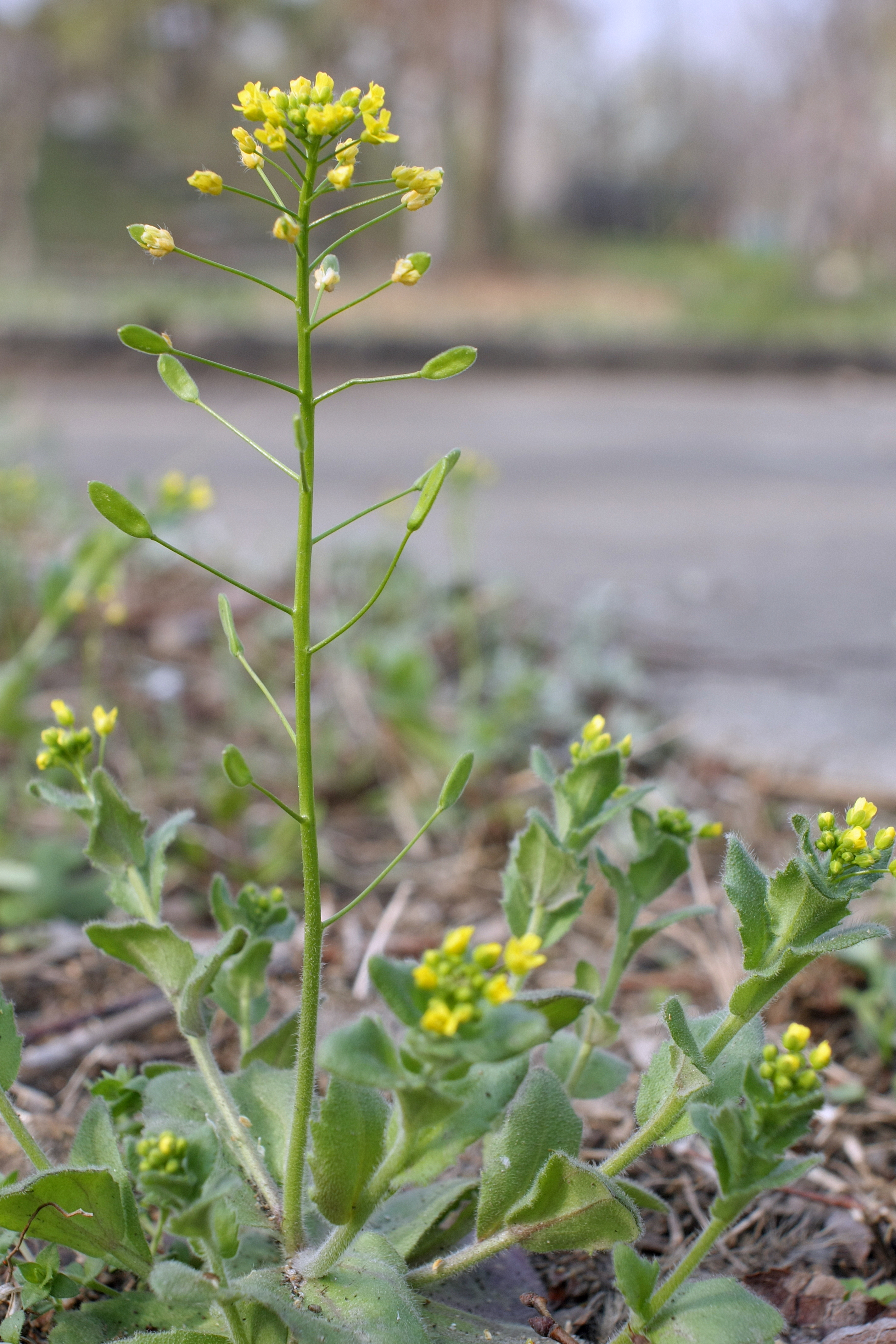 Draba nemorosa in Bupyeong, Korea